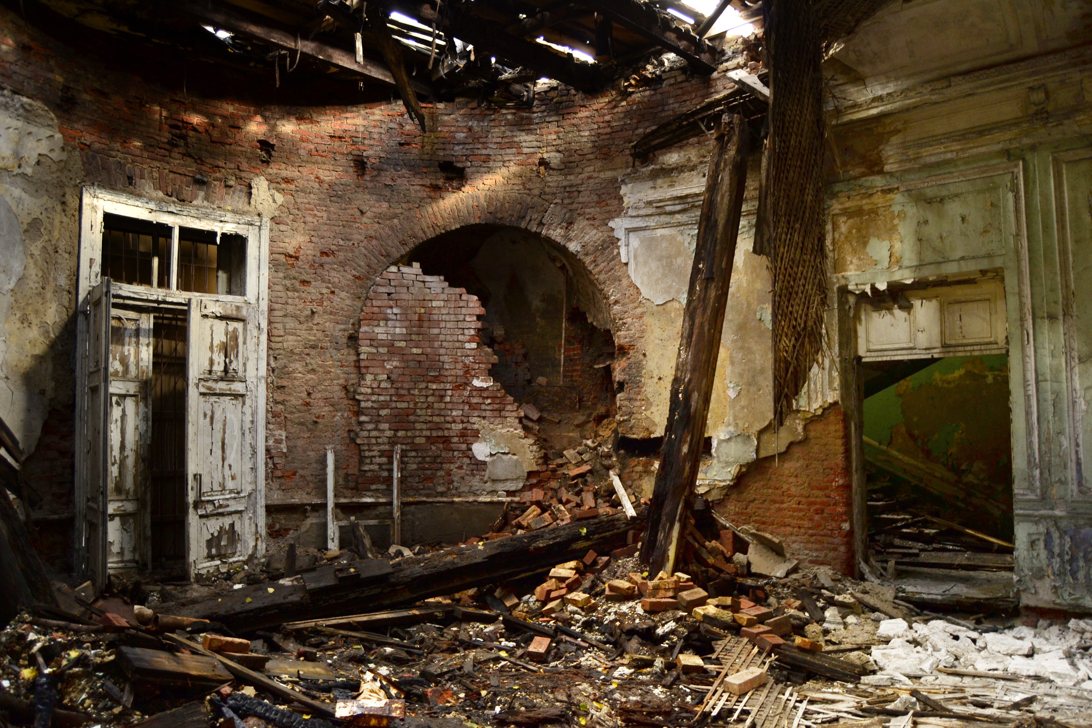 The current state of buildings which once belonged to the Russian Government Minister of Internal Affairs Durnovo PN